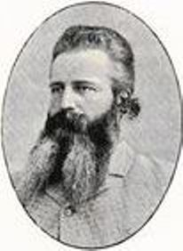 Johan Kristian Wickström (1845-1926), Swedish psychiatrist